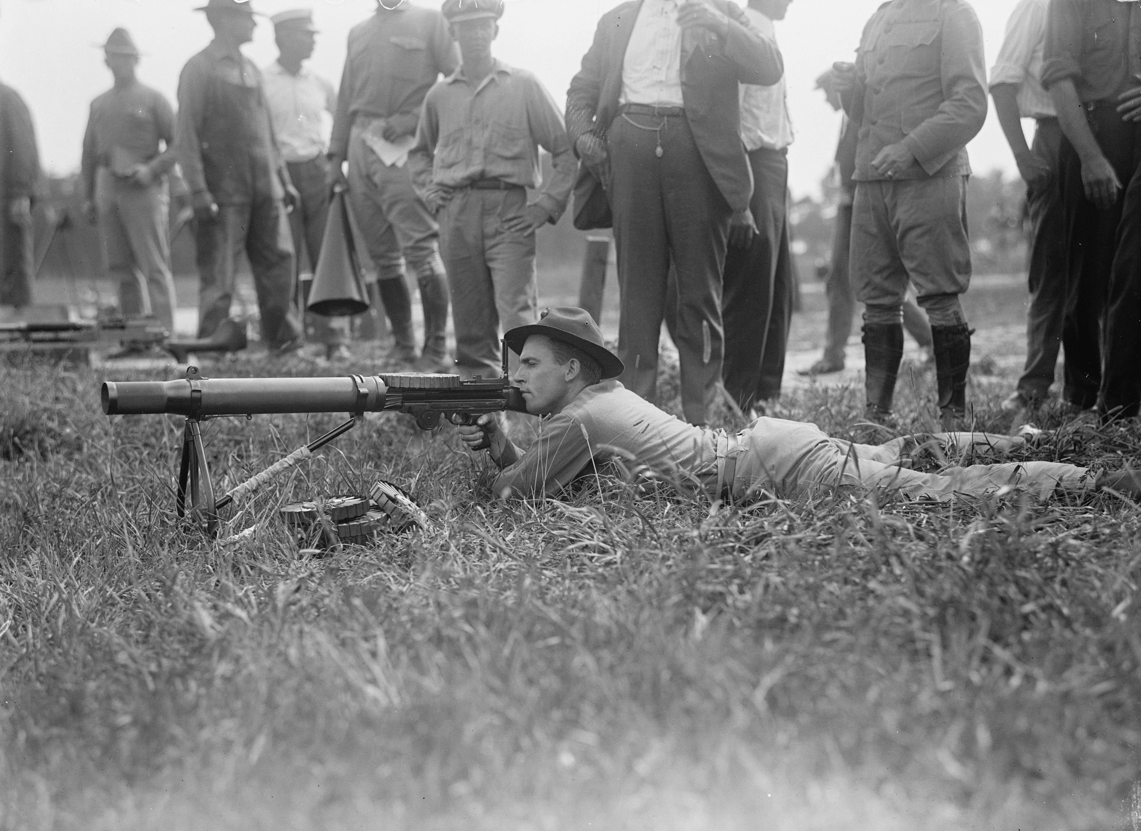 MARINE CORPS RIFLE RANGE, LEWIS MACHINE GUN TESTS